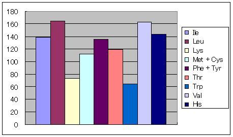 Amino Acid Score of Maise